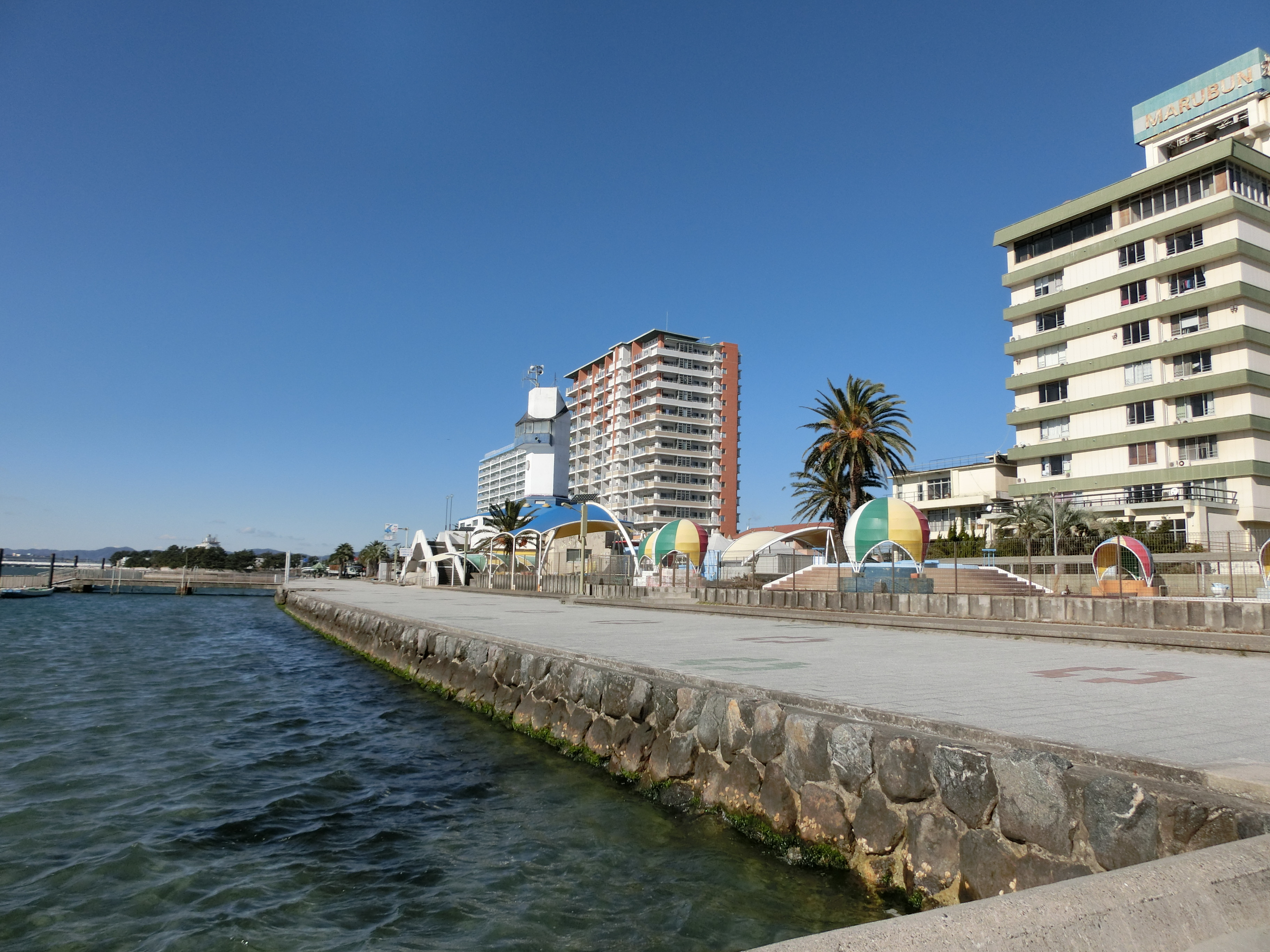 Bentenjima Beach Park